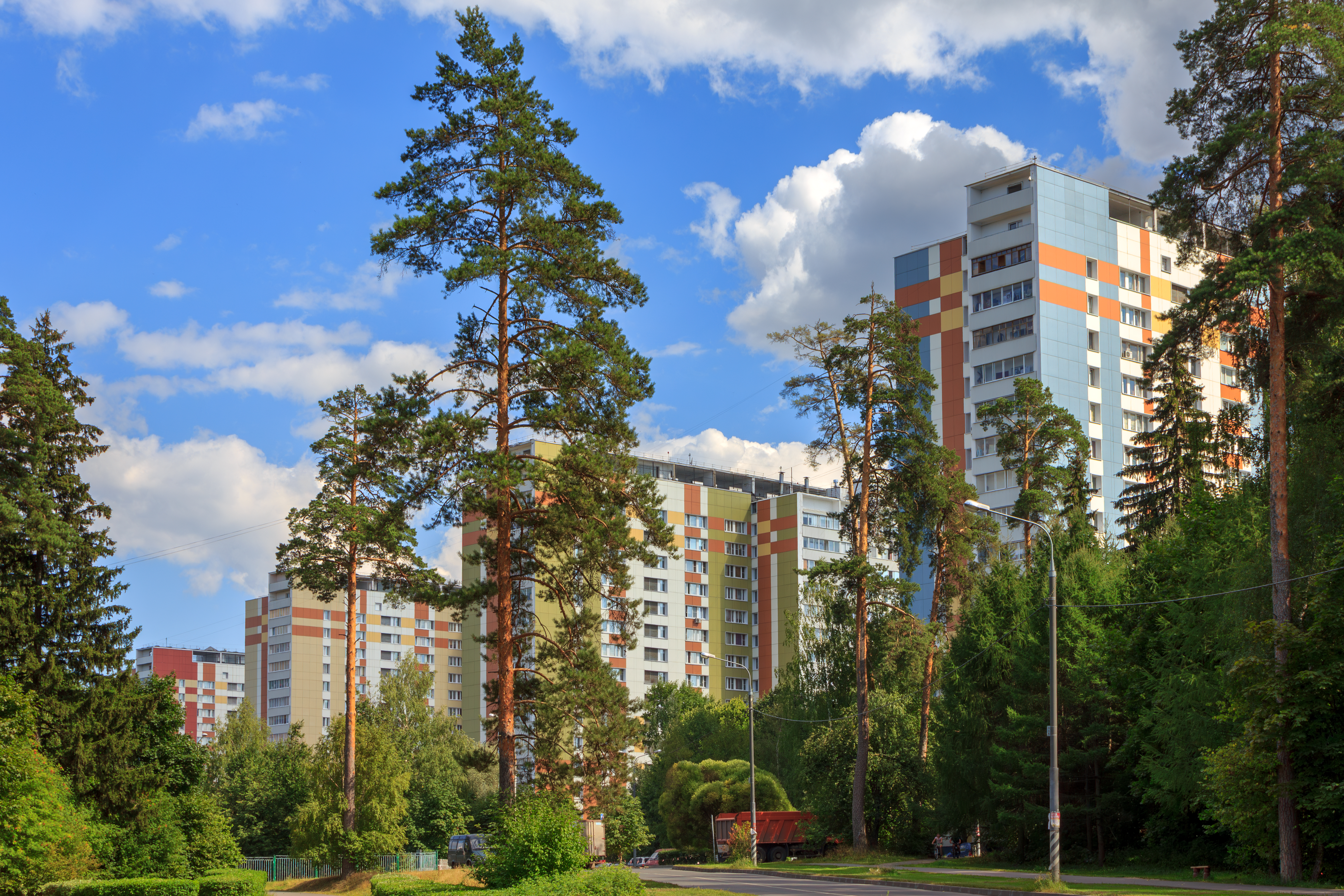 Panel buildings in 9th microdistrict of Zelenograd, Russia